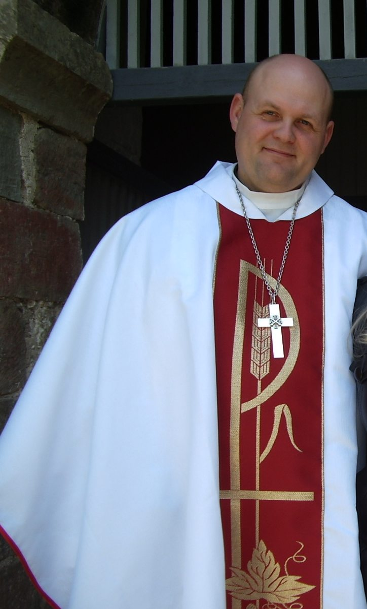 Hannes Nelis, Estonian vicar in Valjala church